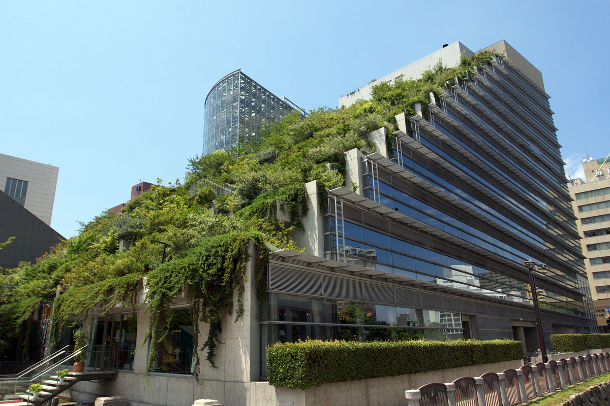 Acros Fukuoka building with Roof garden, in Fukuoka city, Japan.